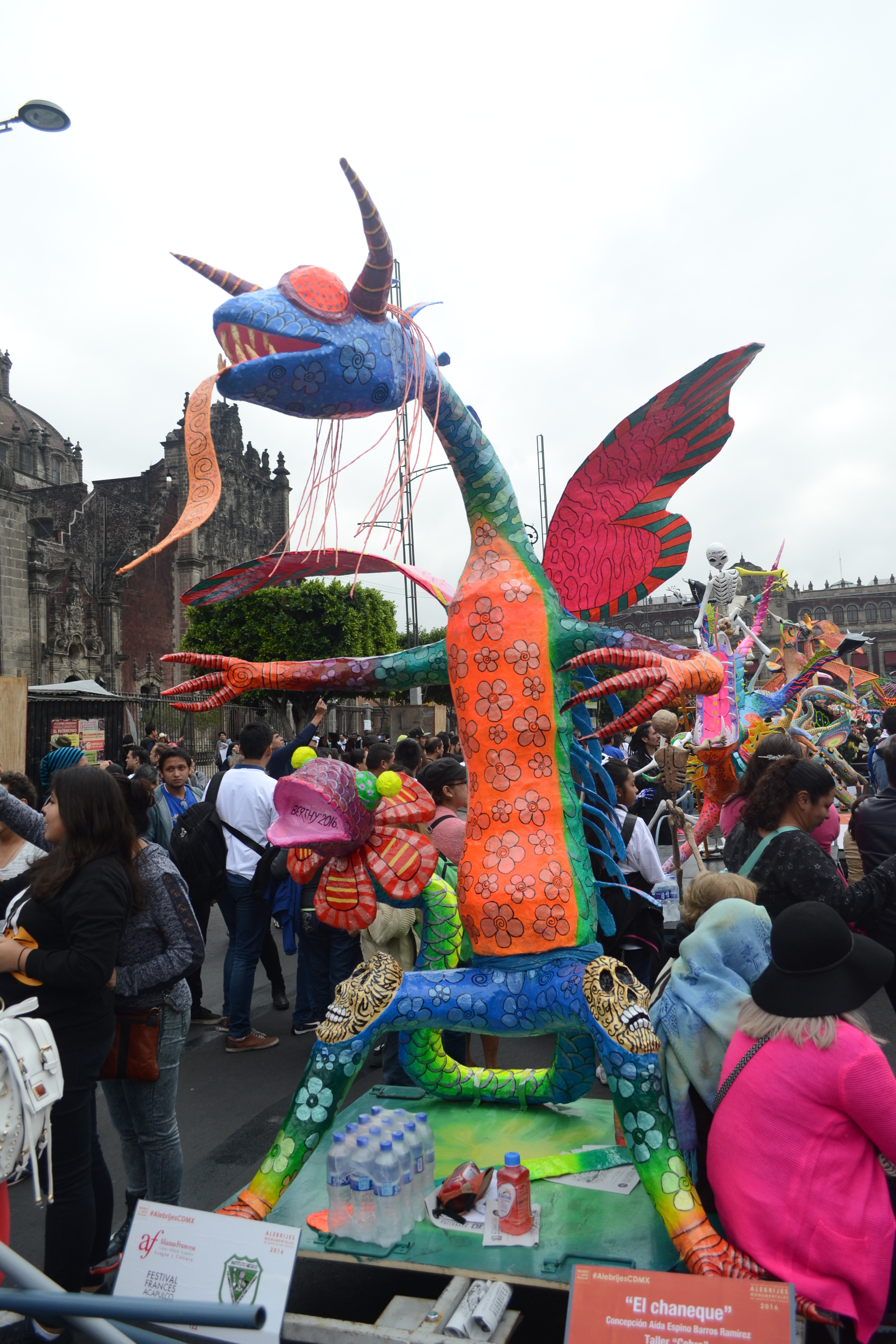 Alebrije named "El chaneque" in the 10th parade of Monumental Alebrijes organized by the Museo de Arte popular in Mexico City